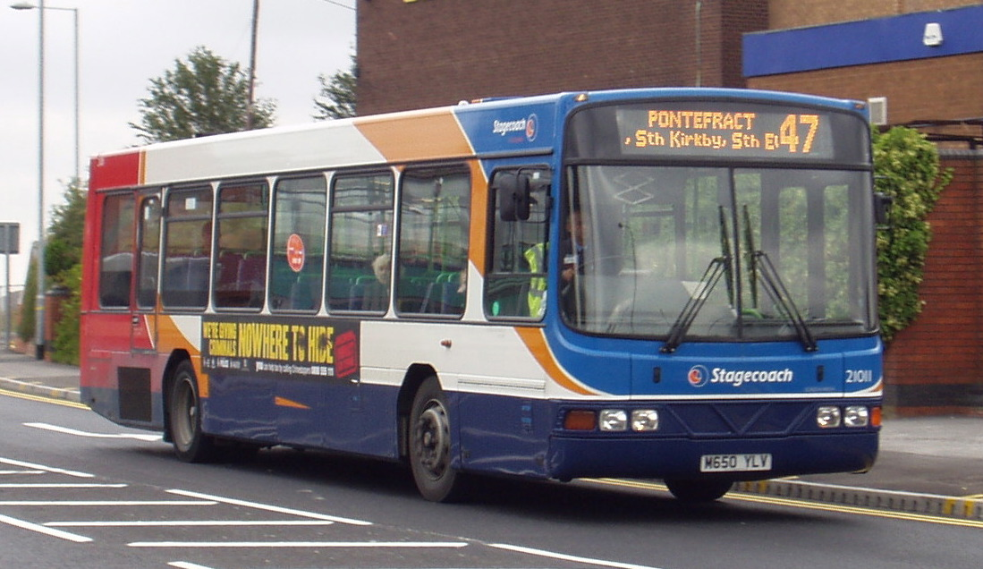 Volvo B10B with Wright Endurance bodywork in service with Stagecoach Yorkshire in Barnsley.